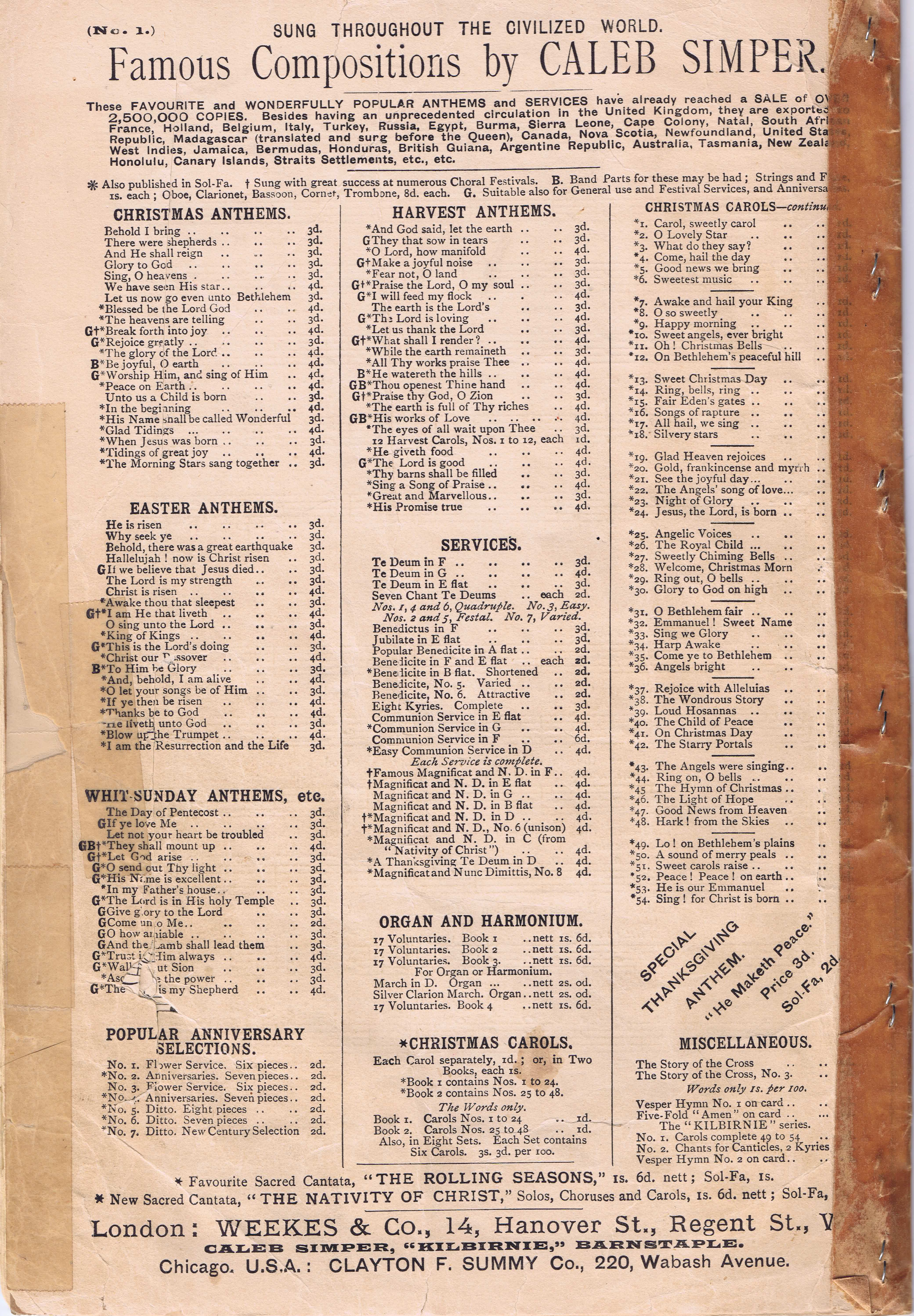 Back cover of an early print of Break Forth into Joy by Caleb Simper, this notes that at the time only 2.5 million copies of his work had been sold, by 1895 it was 3.25m and by 1920 5 million